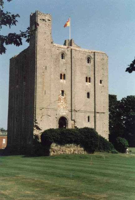 The Keep at Castle Hedingham. A Norman type castle in very good condition.